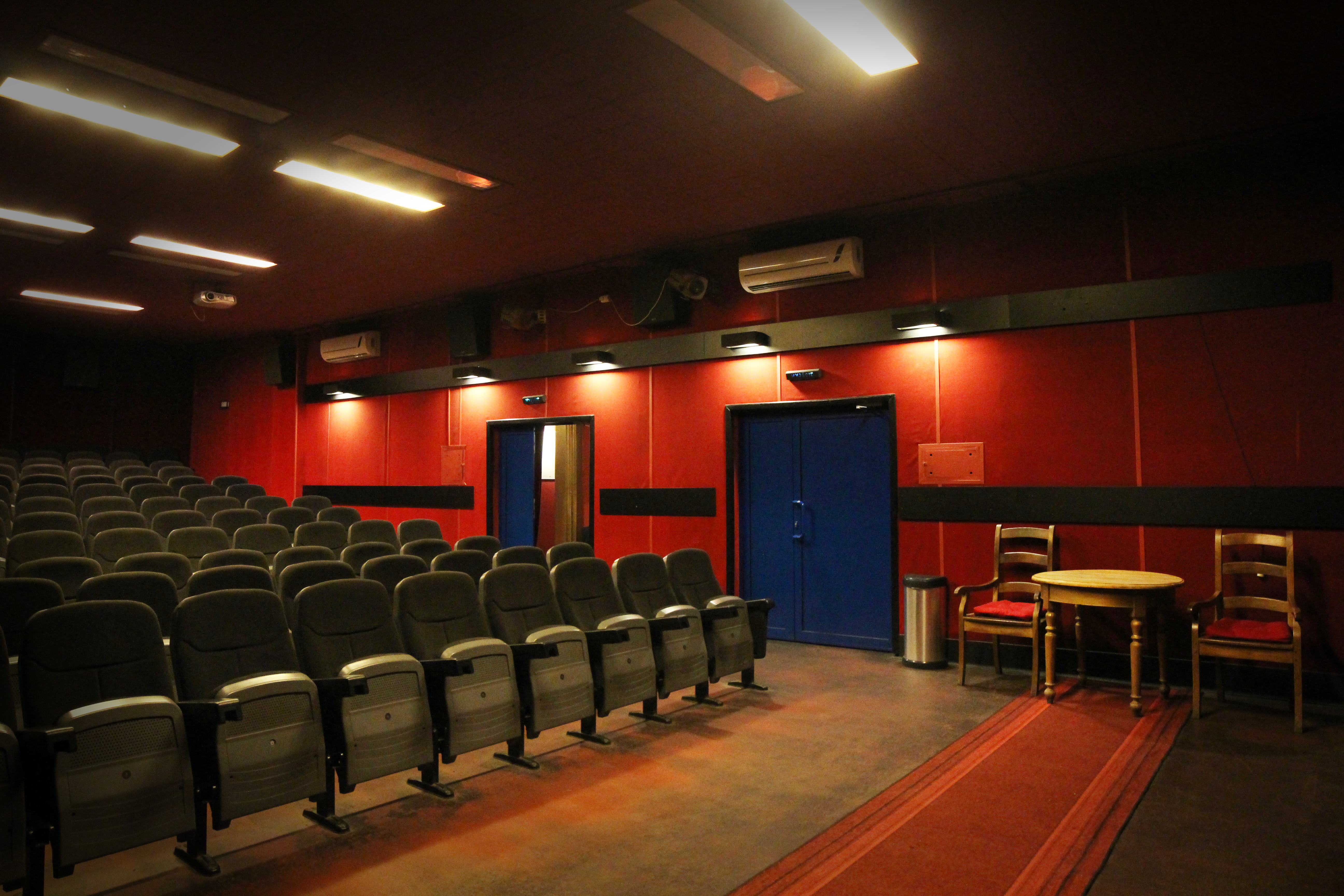 Kino Mikro, studio cinema in Kraków, Poland, at Lea Street 5. It has been active since 1959, since April 7, 1984 as the Mikro & Mikroffala Film Club.